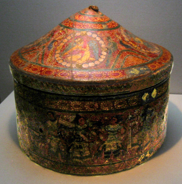 Sarira Casket from Subashi. Personal photograph 2006, Tokyo National Museum.